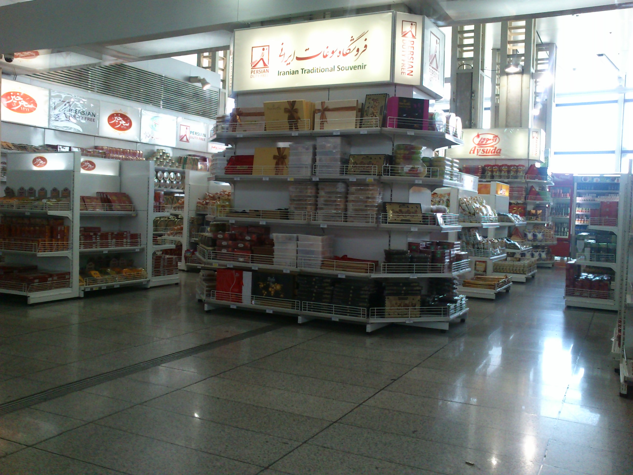 Souvenir shop in Imam Khomeini Airport (Tehran's international airport)